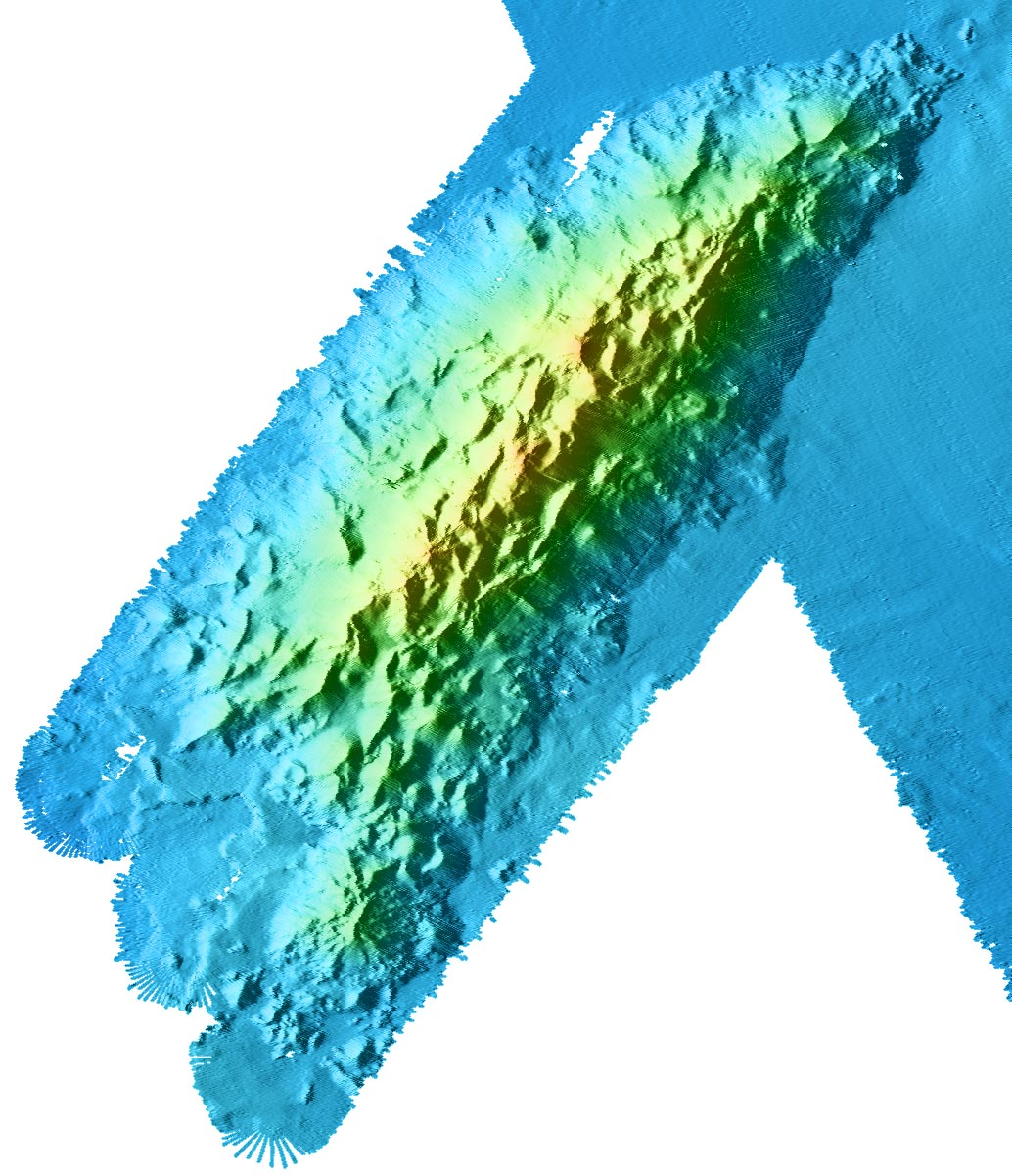 Bathymetric showing details of Davidson Seamount